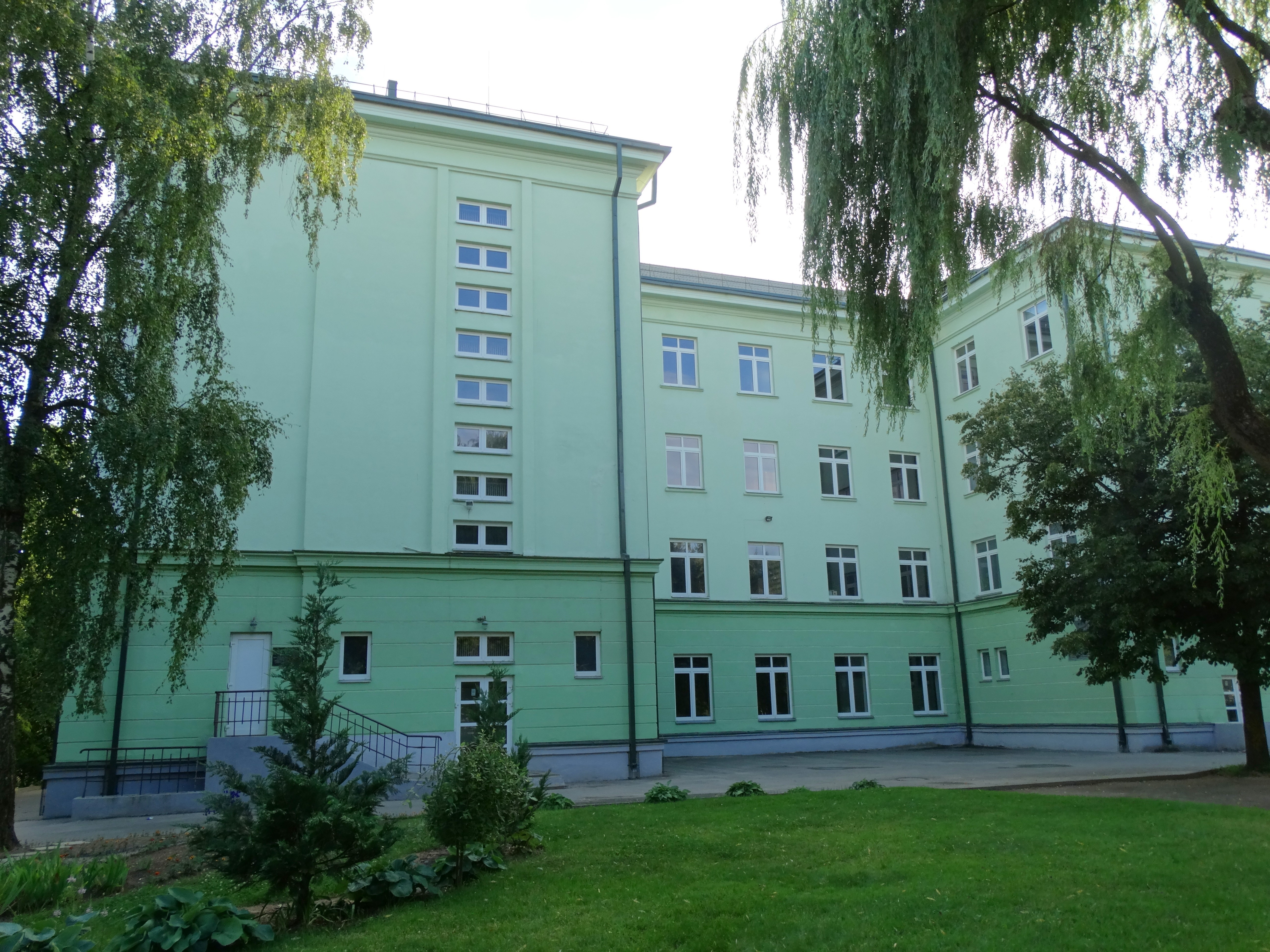 S. Anglickis School, Kuršėnai, Lithuania